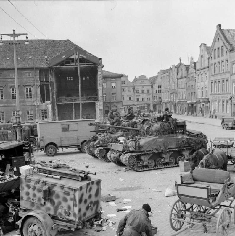 Sherman tanks of the Royal Scots Greys, 4th Armoured Brigade surrounded by abandoned German transport in Wismar, 4 May 1945.